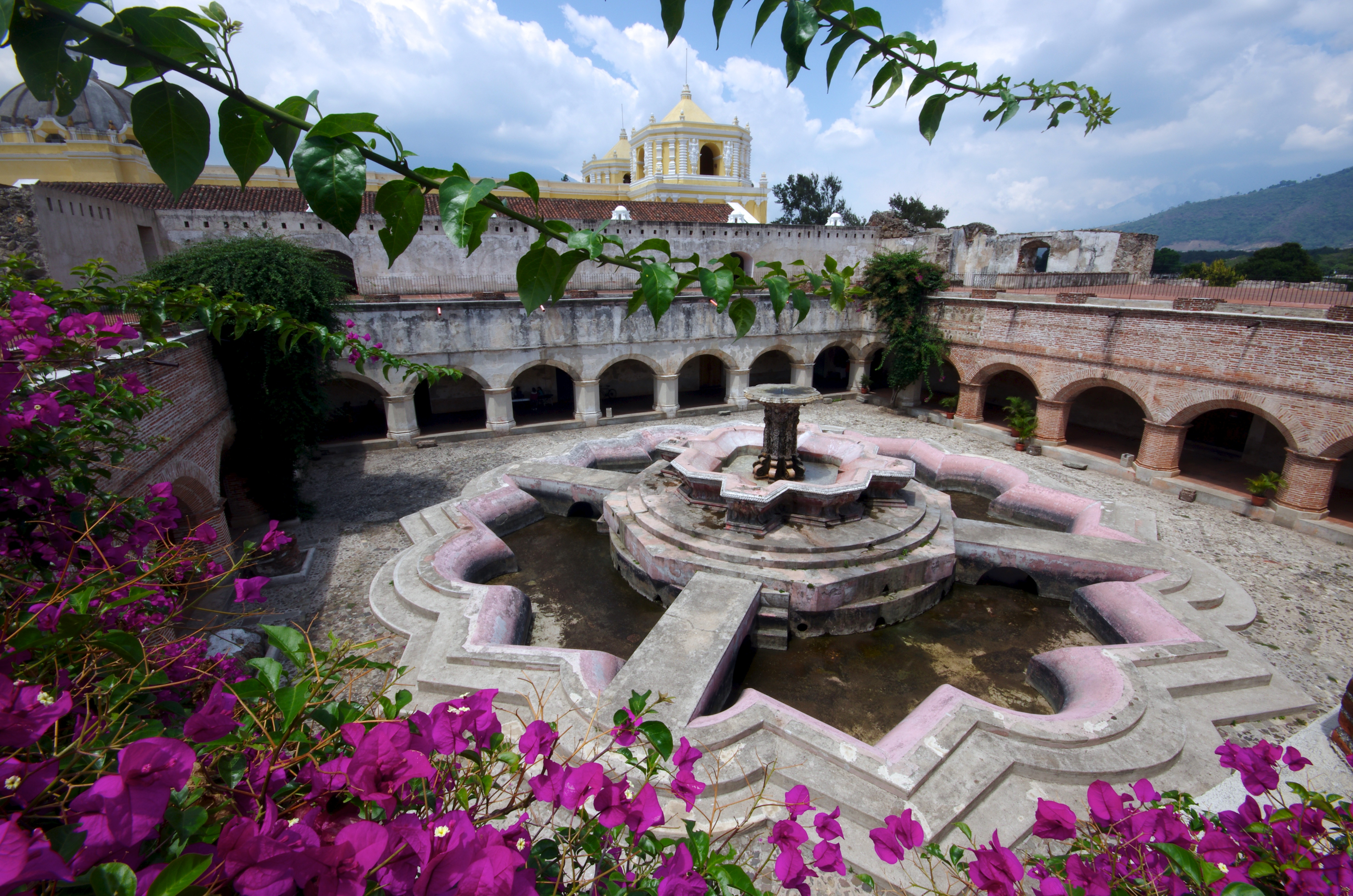 Iglesia y Convento de Nuestra Señora de la Merced in Antigua, Guatemala "Called the Fuente de Pescados, [the fountain] dates from the eighteenth century; it was restored in 1944. Twenty-seven meters in diameter, it’s said to be the largest classical fountain in Guatemala, or in Central America, or in Latin America — it doesn’t really matter. The fountain is in the shape of a water lily. Water lilies are more common in the lowlands, in which bodies of water tend to be still or slow-moving, than in the highlands. In Maya symbology, the water lily, perhaps as a result of the way it seems to emerge out of the watery depths, is associated with creation. A Lancandon legend says that the first god created a water lily, from which all the other gods emerged (Miller and Taube, The Gods and Symbols of Ancient Mexico and the Maya)."